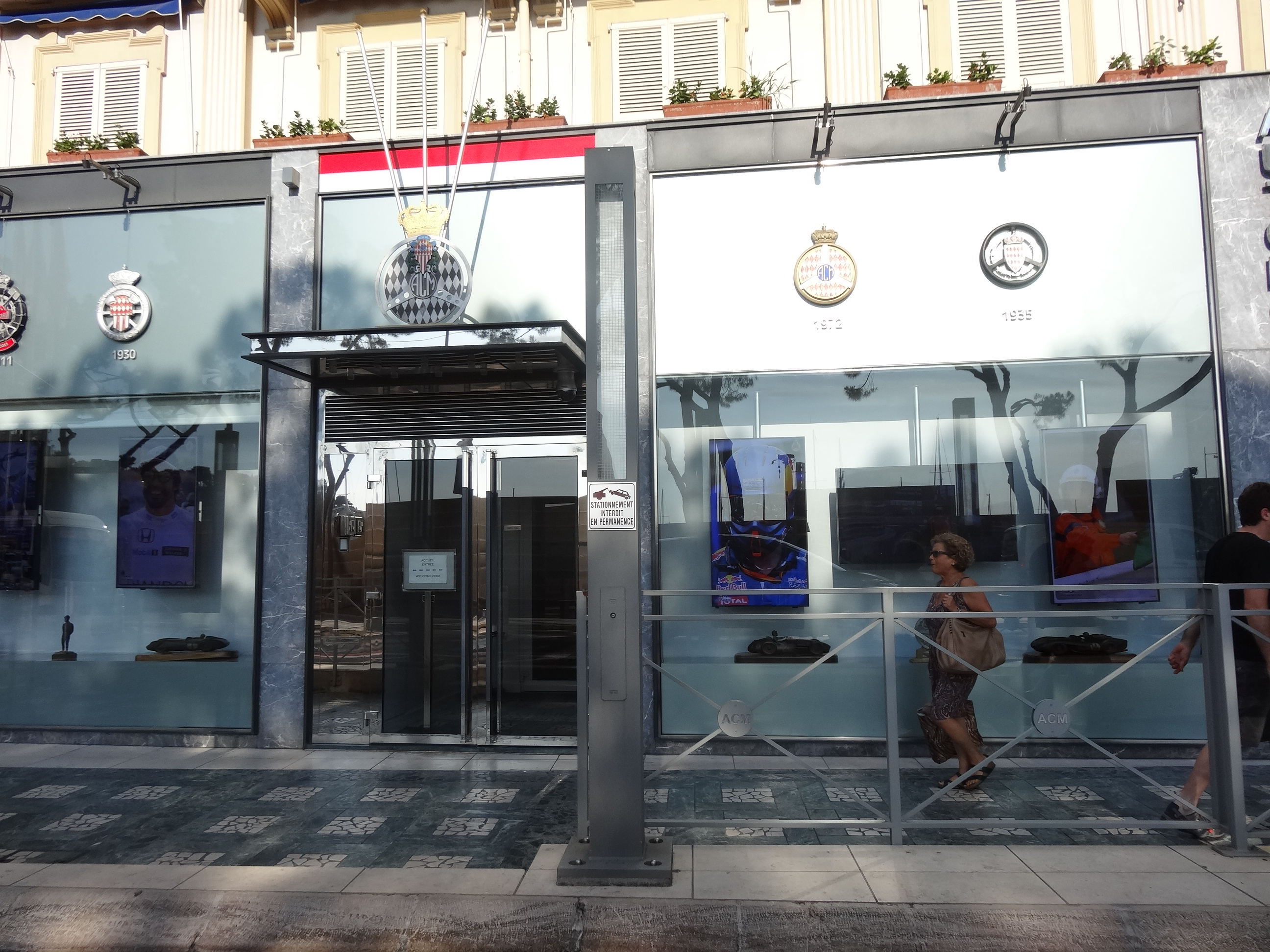 Facade of Automobile Club de Monaco